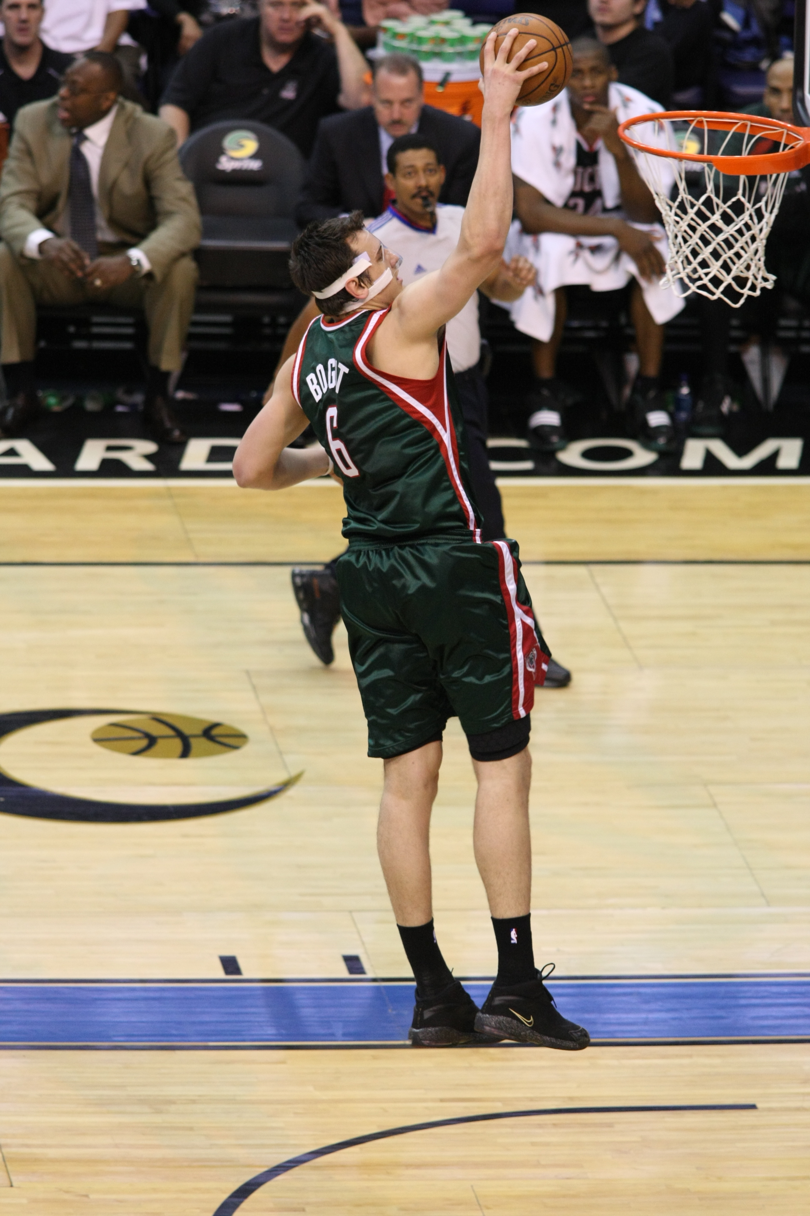 Andrew Bogut playing with the Milwaukee Bucks